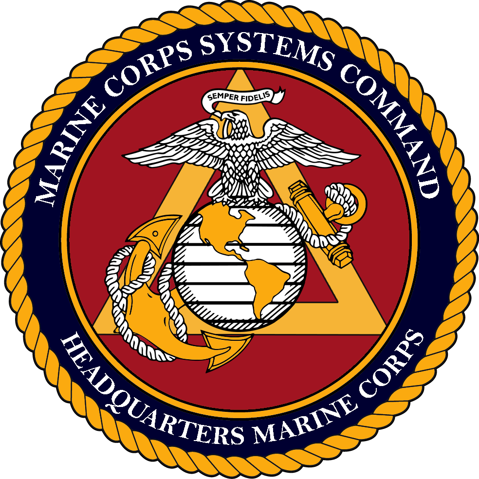 Official logo for Marine Corps Systems Command